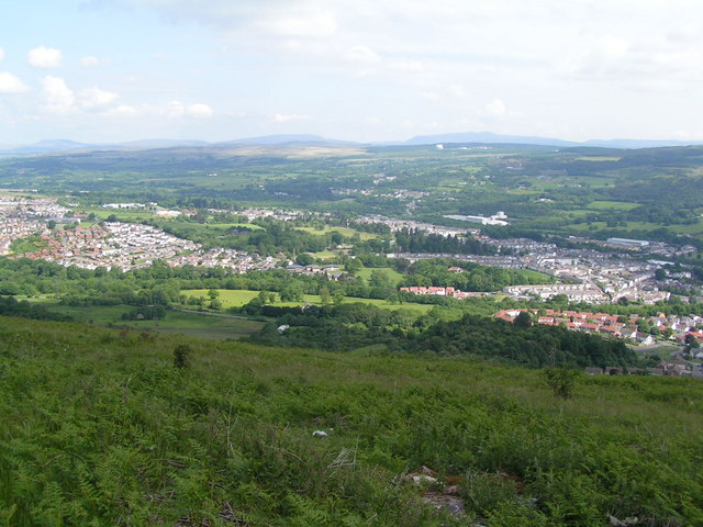 View from road to Ferndale